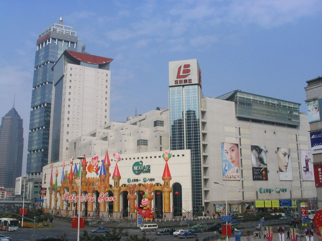 Shanghai New Century Commercial Building / Shanghai Nextage Commercial Building - Shanghai No.1 Yaohan (architect: Shanghai Architectural Design & Research Co.,Ltd.)